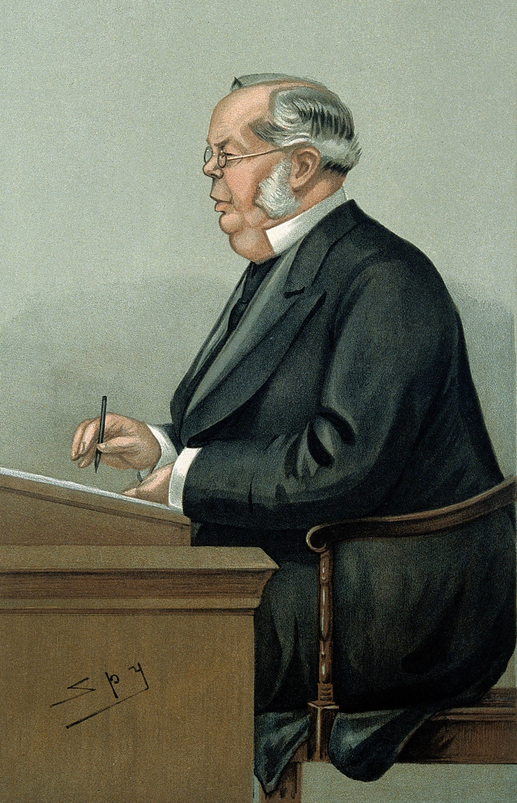 Caricature of Sir William Henry Broadbent KCVO MD FRCP LLD FRS. Caption read "orthodoxy".